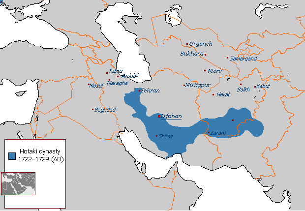 Map of The Hotakids from 1722 to 1729